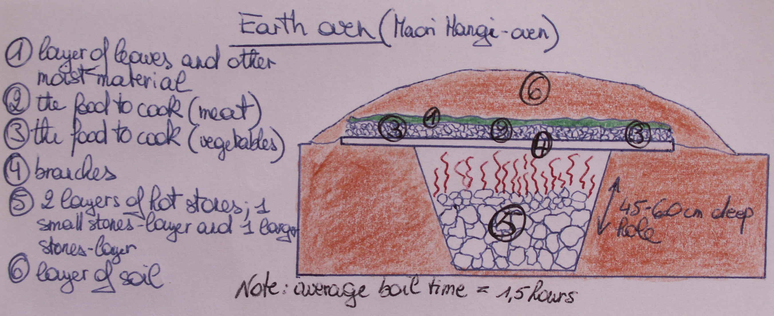 A hand-drawn picture of a earth oven, used too by the Maori. The picture has been drawn after a model from Peter Darman's The Survival Handbook. This earth oven can be constructed in the field using commonly available material and can be used to cook food (so its safe for eating).